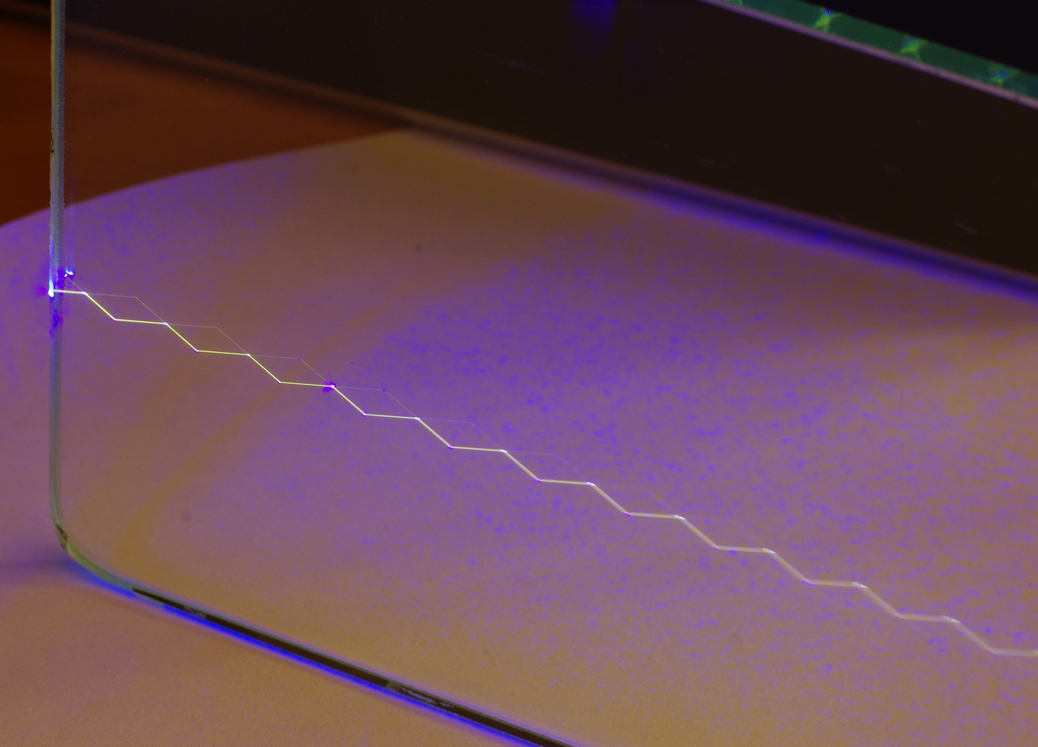 A 405nm violet diode laser is gently focused to a thin beam withh a large depth of focus. It enters a thick glass plate at one clear-cut edge. The angle of incidence is chosen for total internal reflection within the glass. The laser beam travels zig zag and makes the glass fluoresce greenish. This fluorescence light is emitted in all directions and therefore can be seen from the outside.